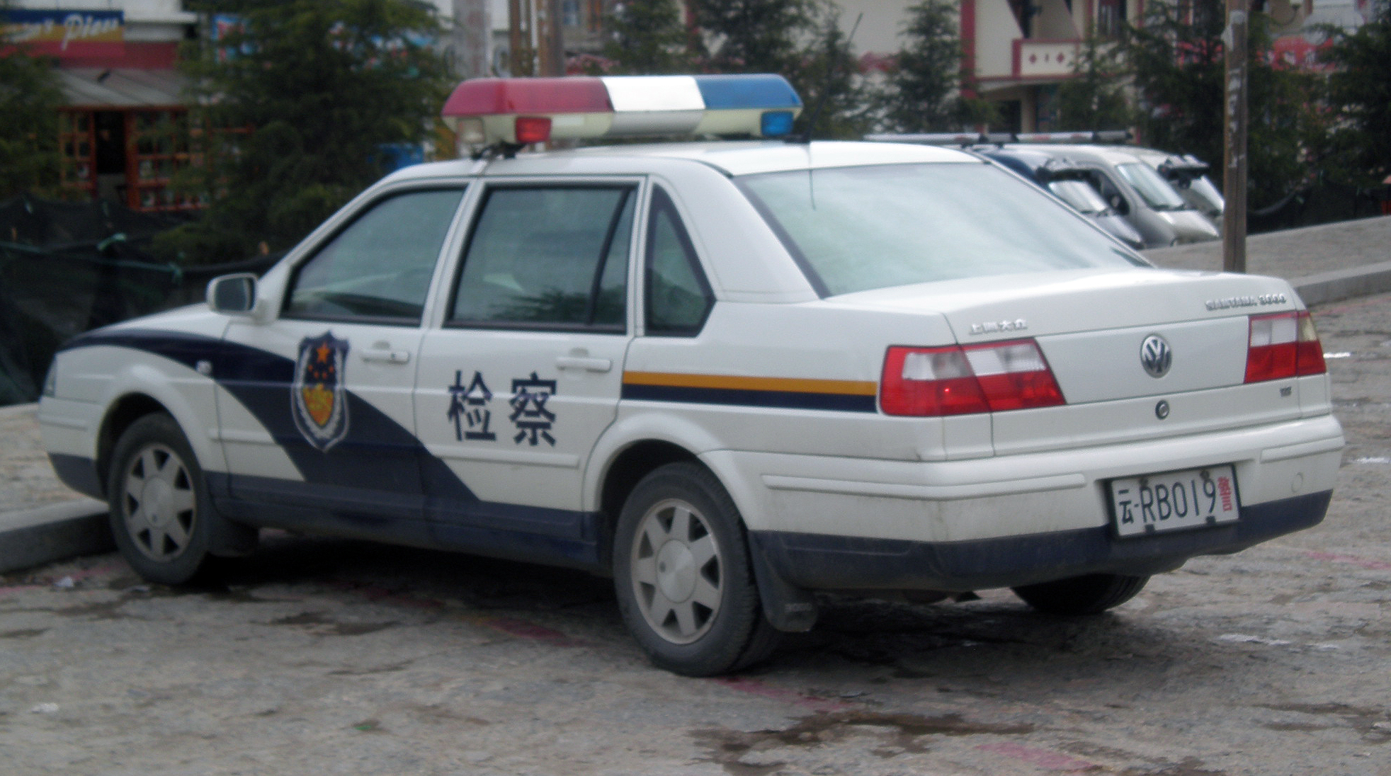 A Volkswagen Santana 3000 used by the Prosecutors Office in Shangri-La, Yunnan.